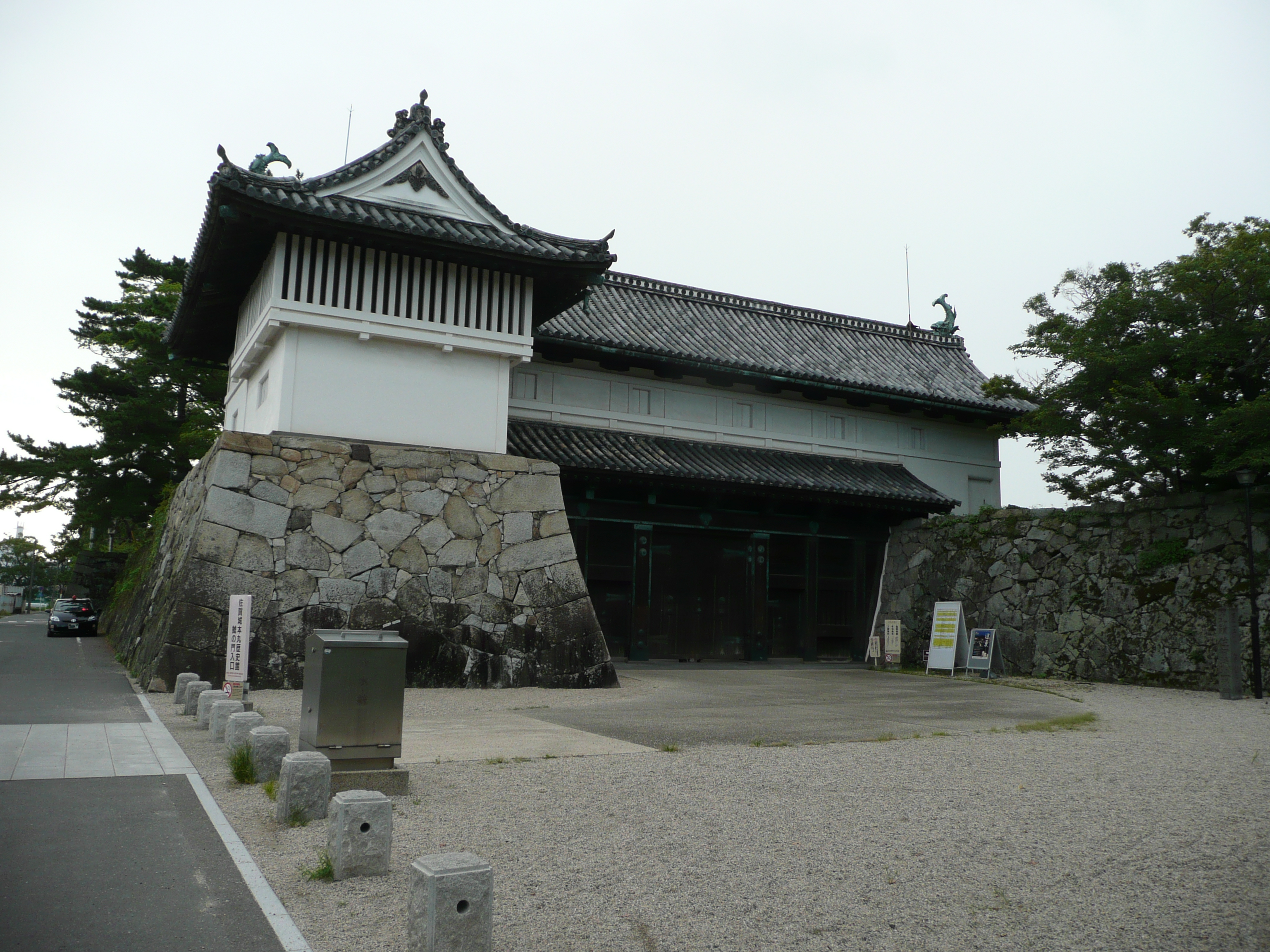 佐賀城の鯱門